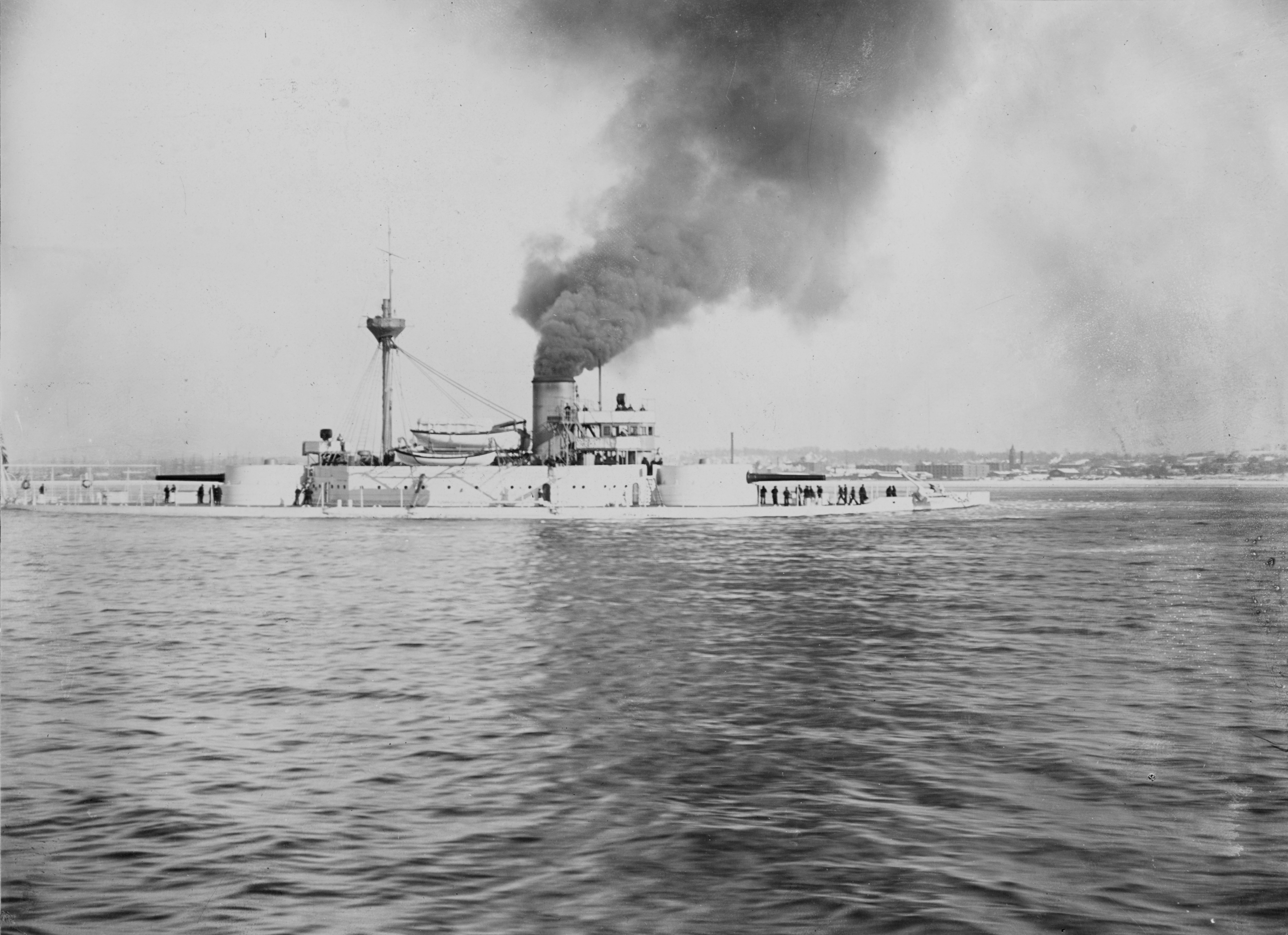 Photographed circa 1896-99. U.S. Naval History and Heritage Command Photograph.